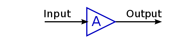 System having no feedback